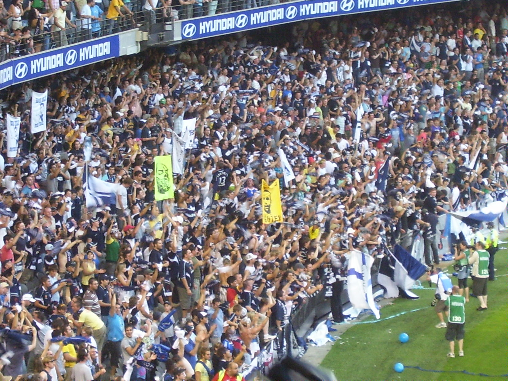 Fans Celebrating